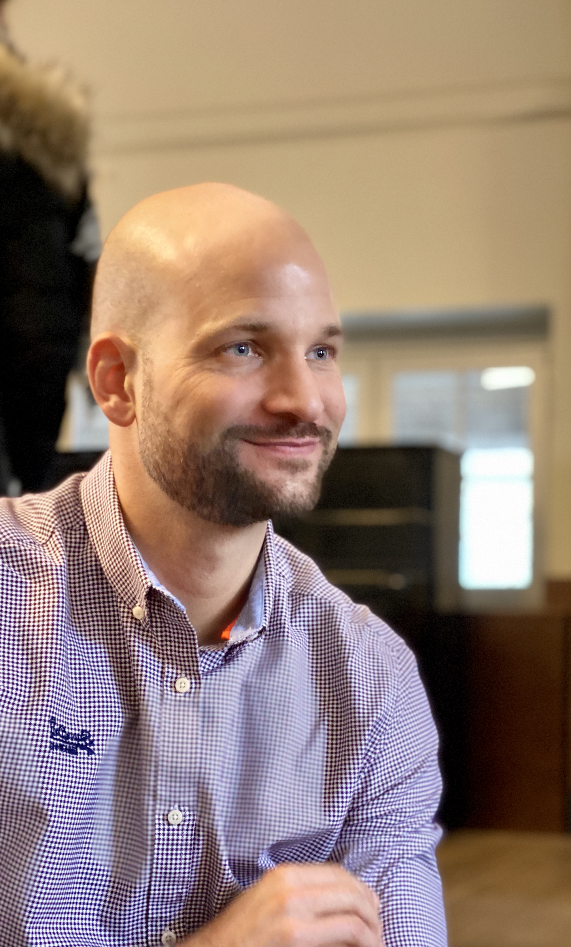 Headcoach Sebastian Waser (Interview Feb.2020)